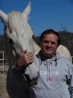 Kemal Öncü, a turkish horse riding champion